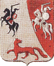 Big Coat of Arms of Russian Empire (Połacak, Viciebsk, Amścisłaŭ)